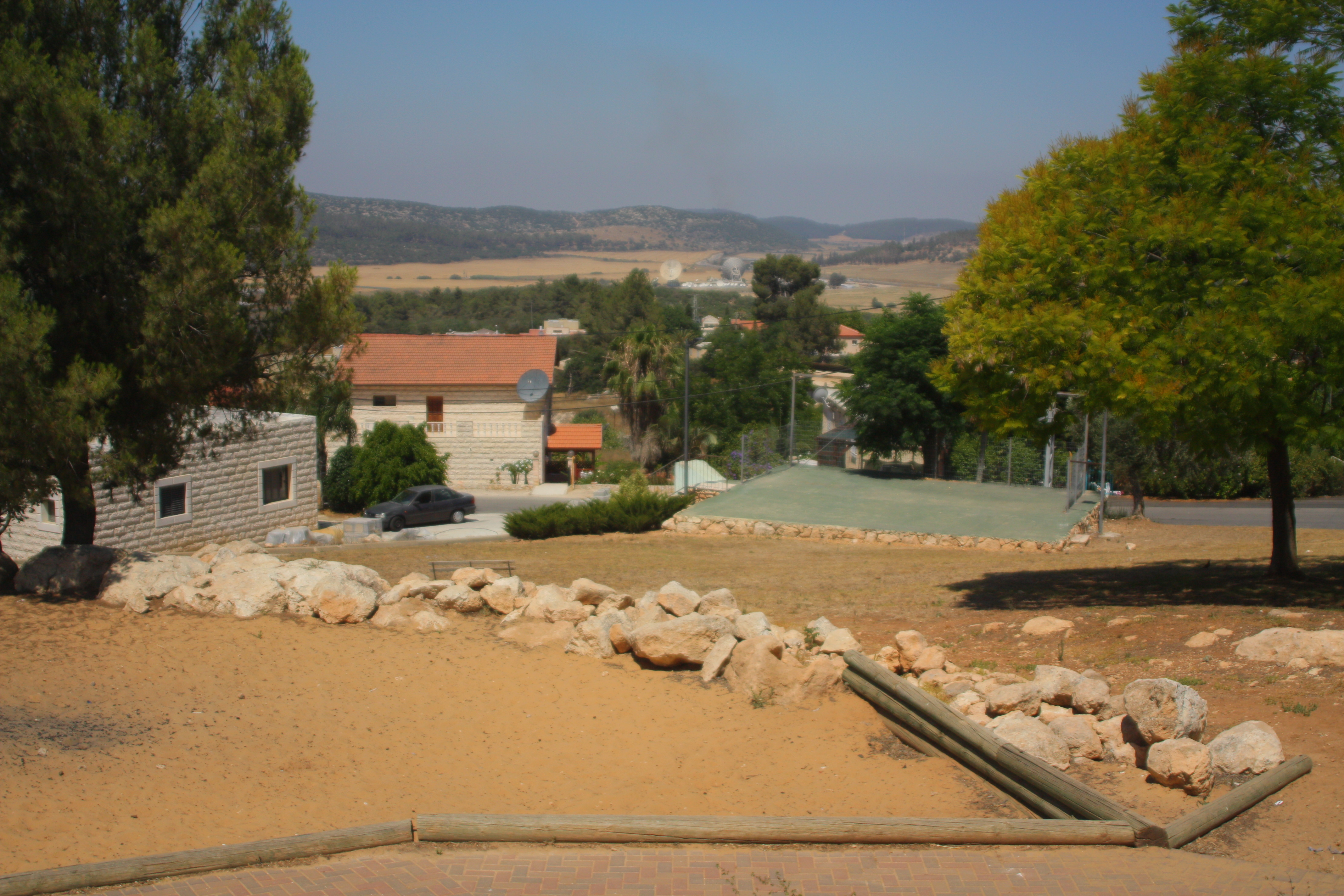 Aviezer